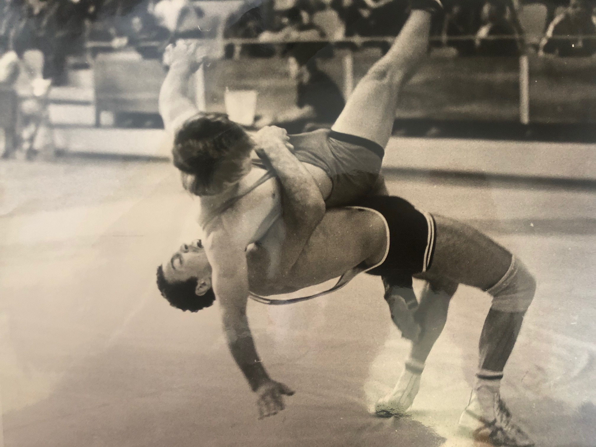 Pavel Pavlov, wrestling